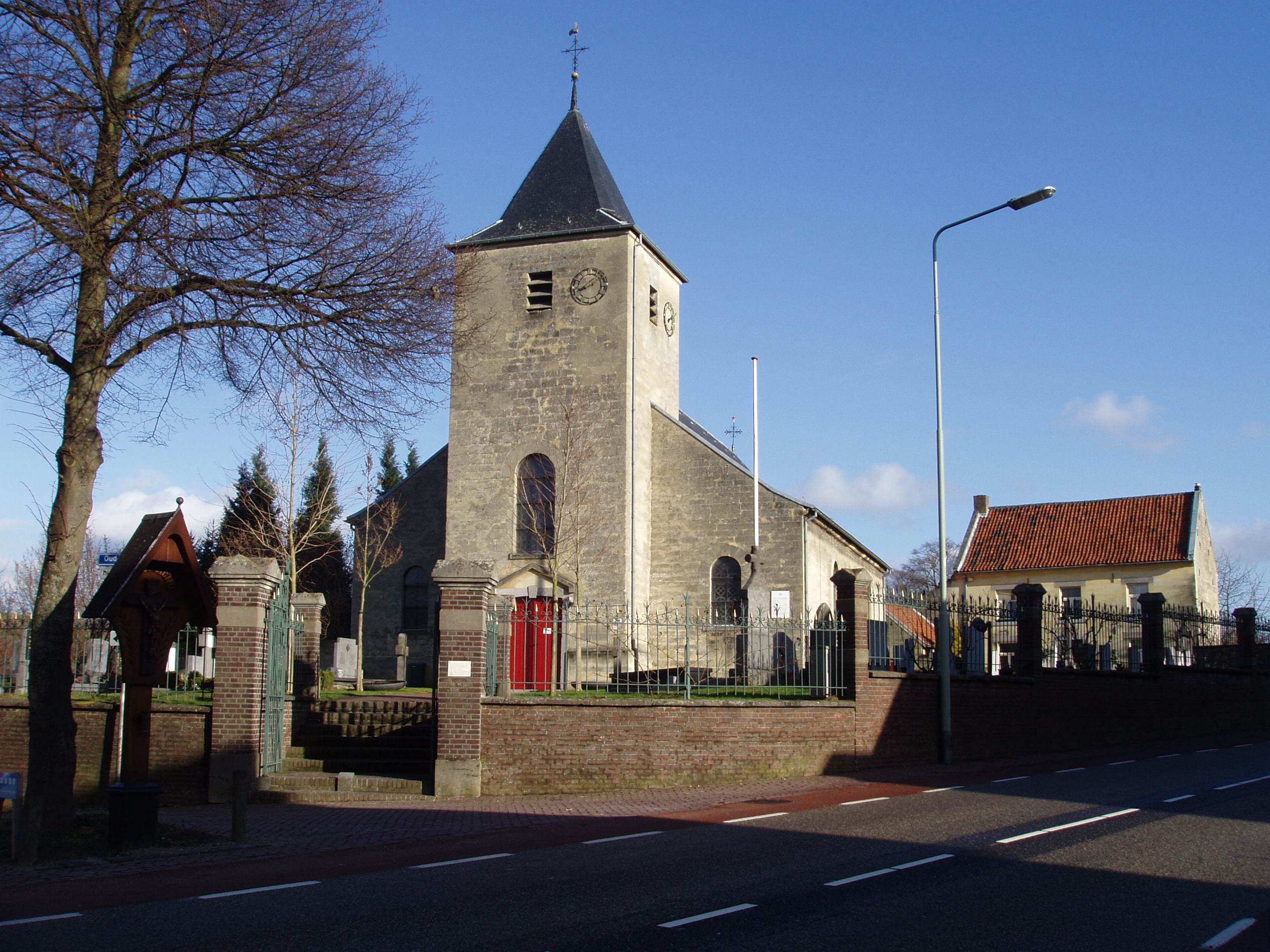 Church of Oud-Valkenburg, Limburg, Netherlands, "Johannes de Doperkerk"